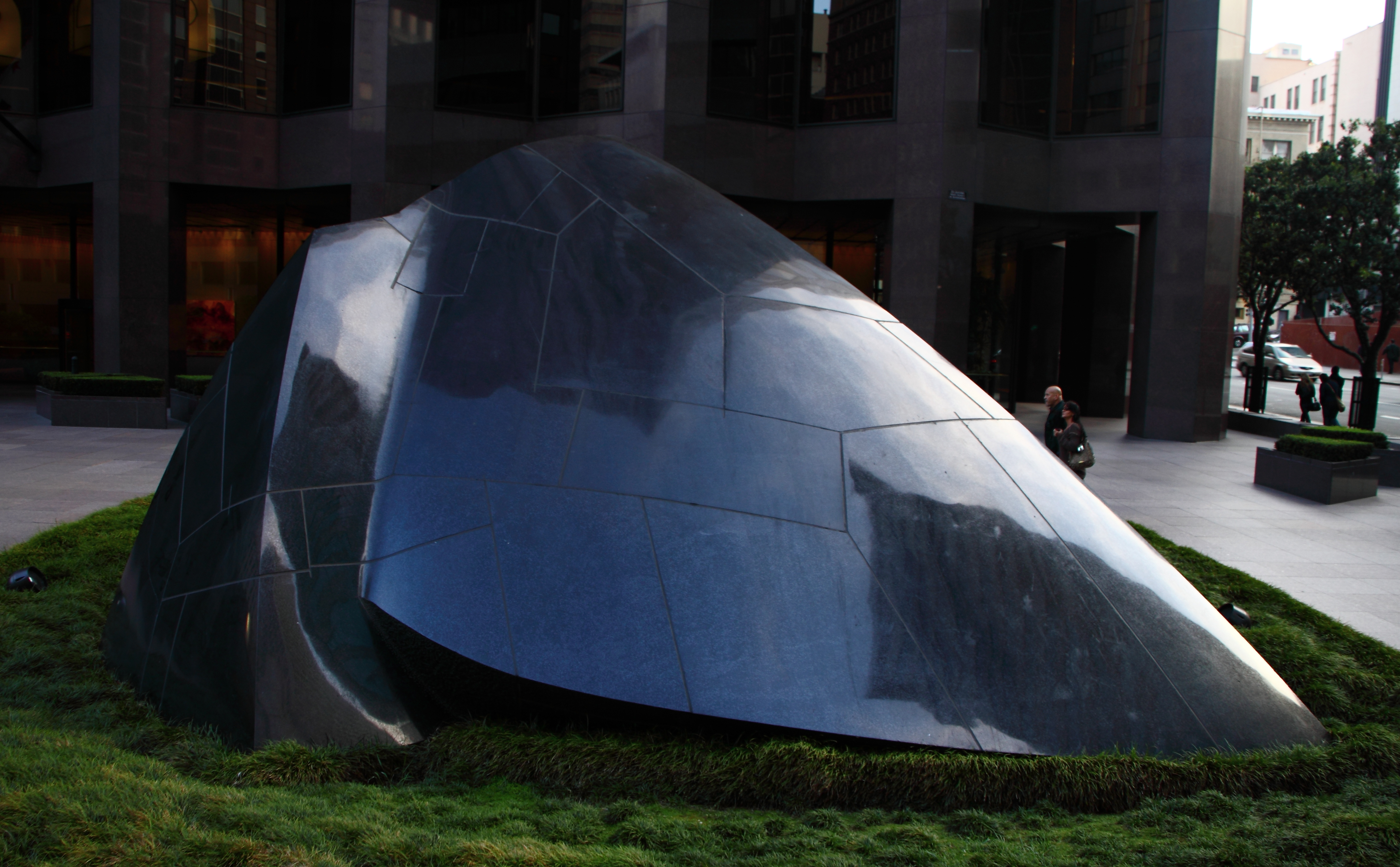 The sculpture "Transcendence" by Masayuki Nagare, located at 555 California St. San Francisco. Known colloquially as "The Banker's Heart"